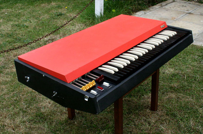 Single Manual Vox Continental